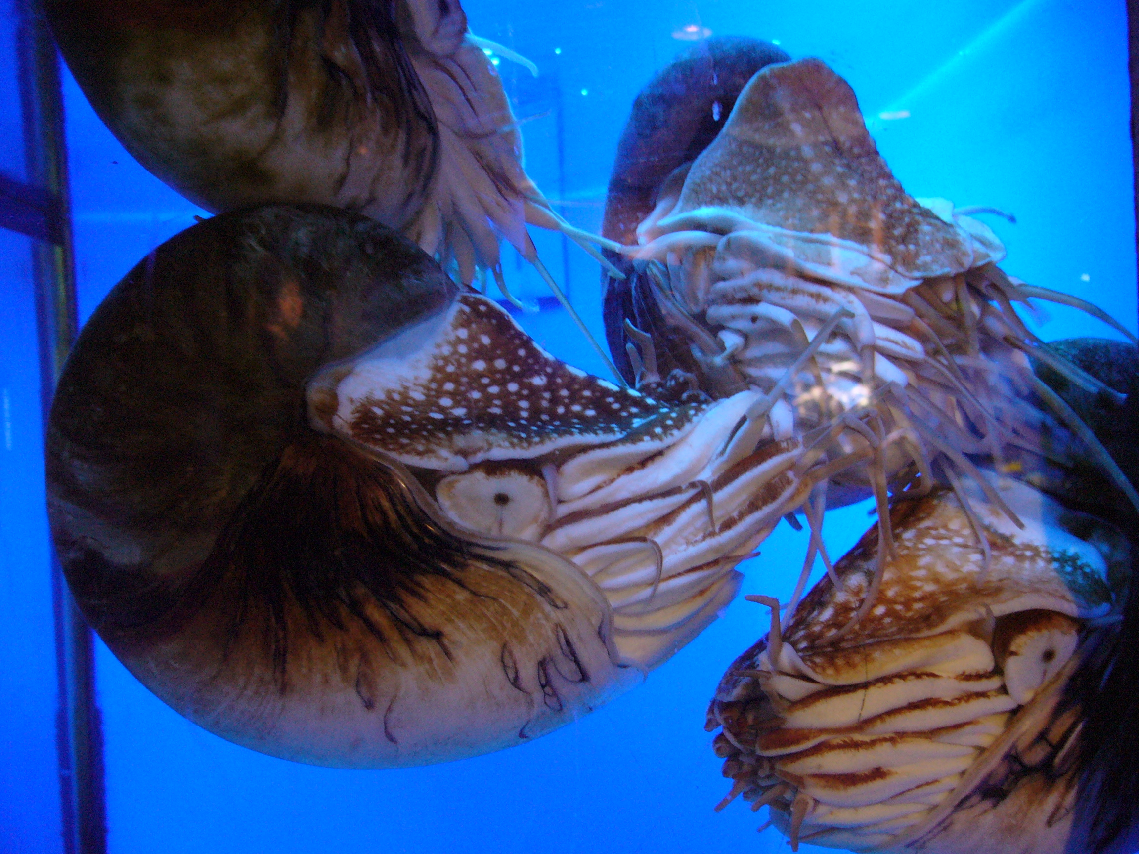 Nautilus pompilius in Sala Humboldt of Aquarium Finisterrae (House of the Fishes), in Corunna, Galicia, Spain.